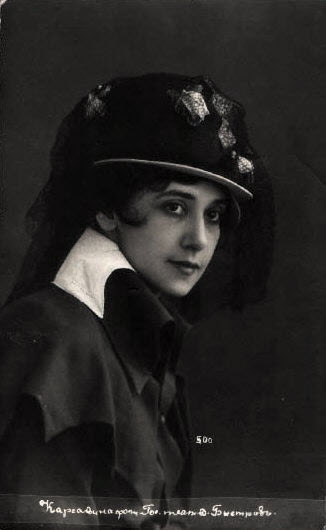 Photo of Tamara Platonovna Karsavina, Grand Ballerina of the Tsar's Imperial Ballet, and the Parisian Ballet Russe of Sergei Diaghilev. Taken by an unknown photographer in St. Petersburg, Russia, between 1910 - 1920.